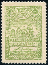 Postage stamp of the Bukharan People's Soviet Republic, 3 rub., gray-green, 1924.